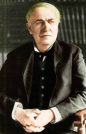 Image for Thomas Alva Edison colored